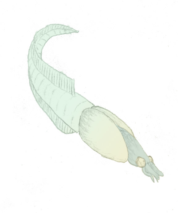 Reconstruction of Nectocaris, an extinct animal